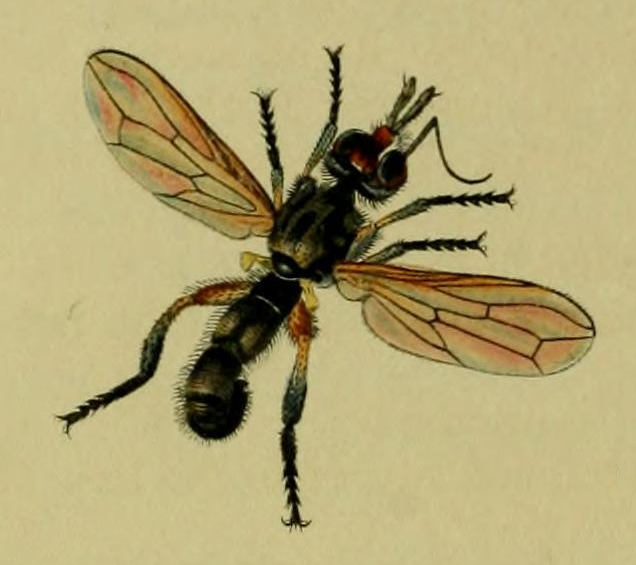 Thecophora fulvipes (original name on the book : Myopa fulvipes)